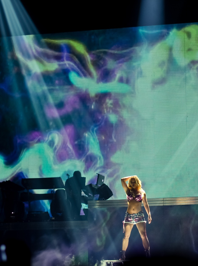 Britney Spears performing "Womanizer" at 2011's Femme Fatale Tour live in Ukraine.